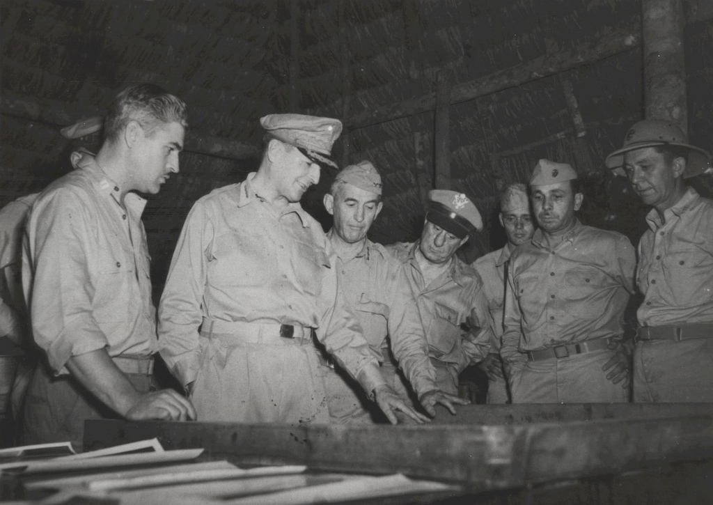 General Douglas MacArthur reviews plans for landing on Cape Gloucester. Captain Richmond "Dick" Kelsey, responsible for making the relief map, is on far left. Colonel Amor Sims, on right.